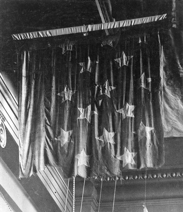 Flag of USS Chesapeake (1800-1813) Which was purchased for $4,250.00 by Mr. William Waldorf Astor and presented to the United Service Institution of Great Britain. It was displayed in their museum at Whitehall, London.